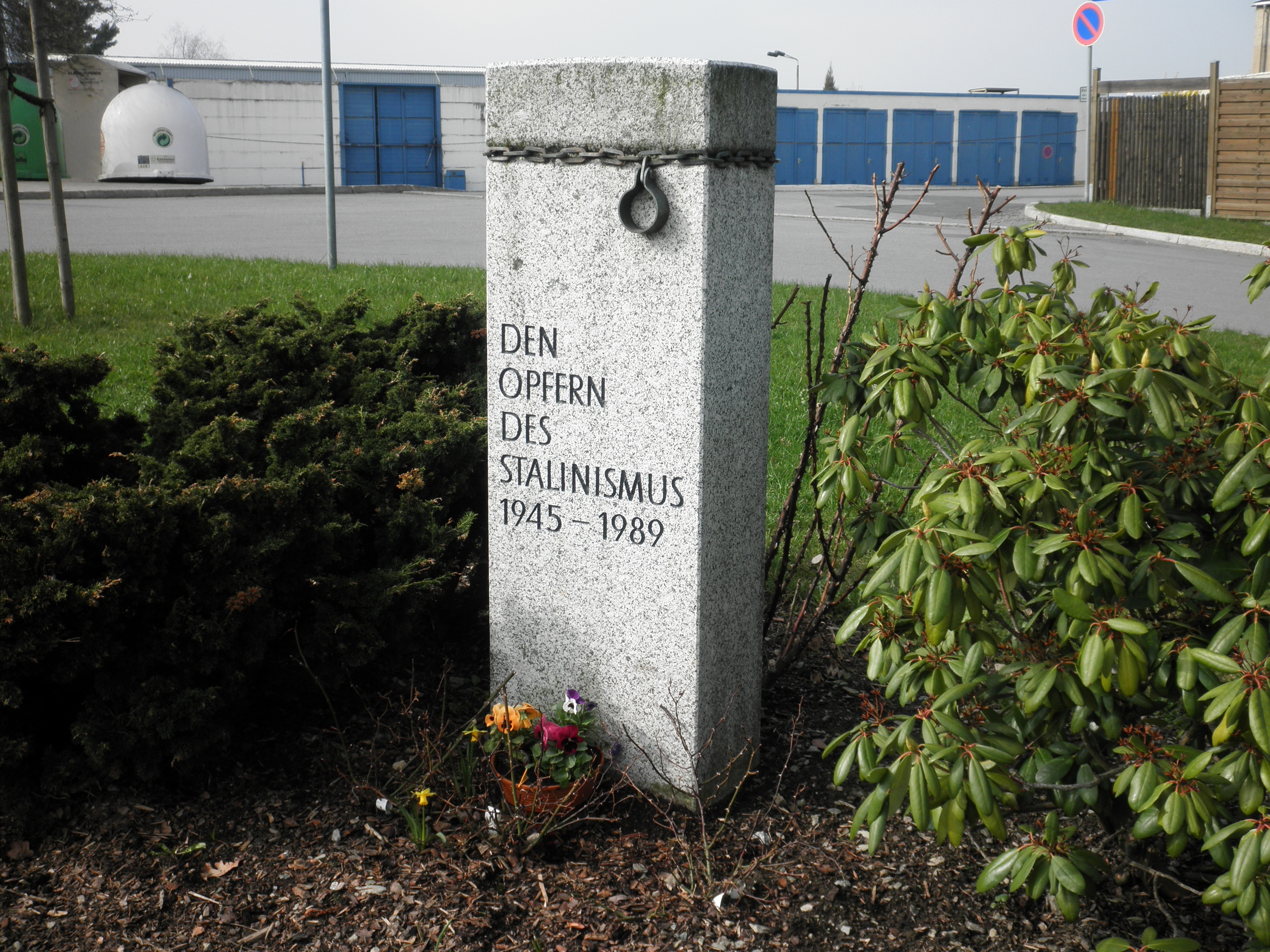 Monument for Victims of Stalinism in Hoheneck in Saxony